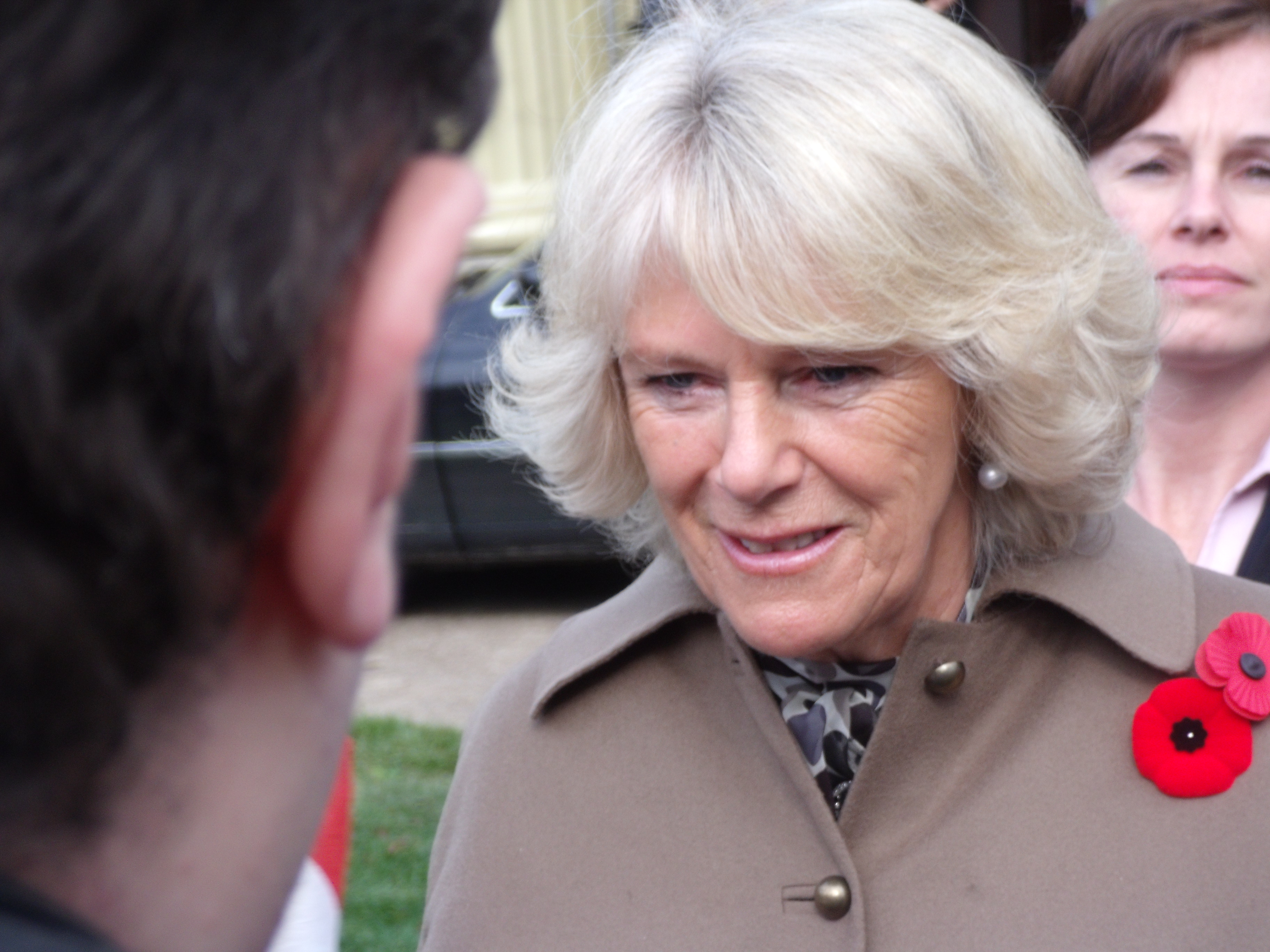 The Duchess of Cornwall at Dundurn Castle